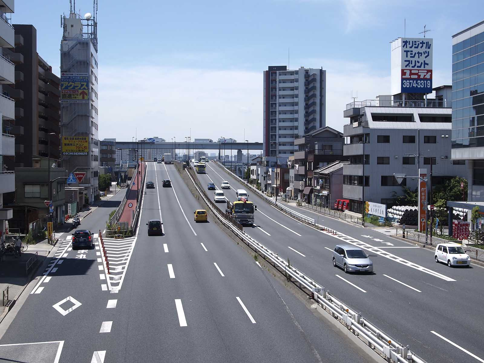 East side of Komatsugawa Bridge, view from neighbour of Komatsugawa Police Station.